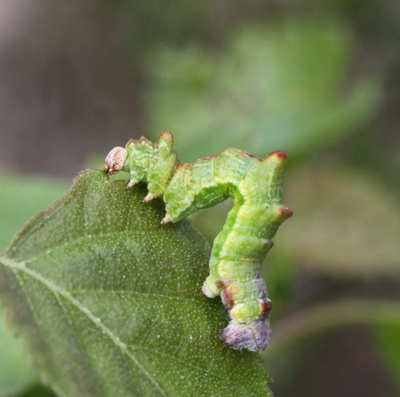 the emerald geometer moth ( "Geometra papilionaria" )